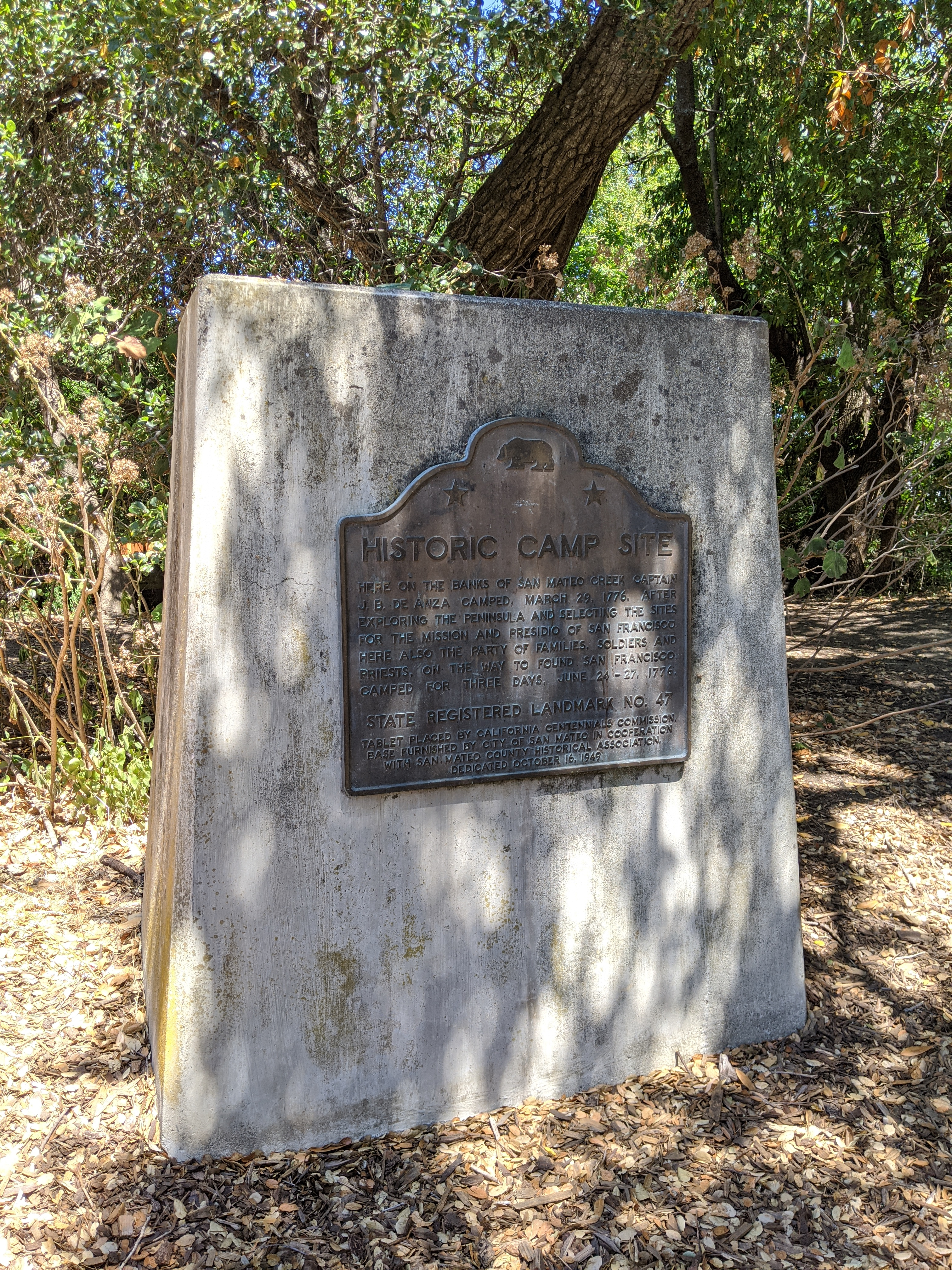 Arroyo Court, aka De Anza Historical Park, San Mateo